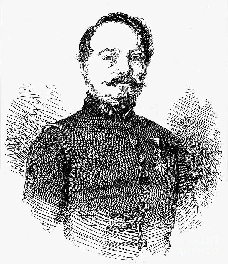 Claude-Etienne Minie